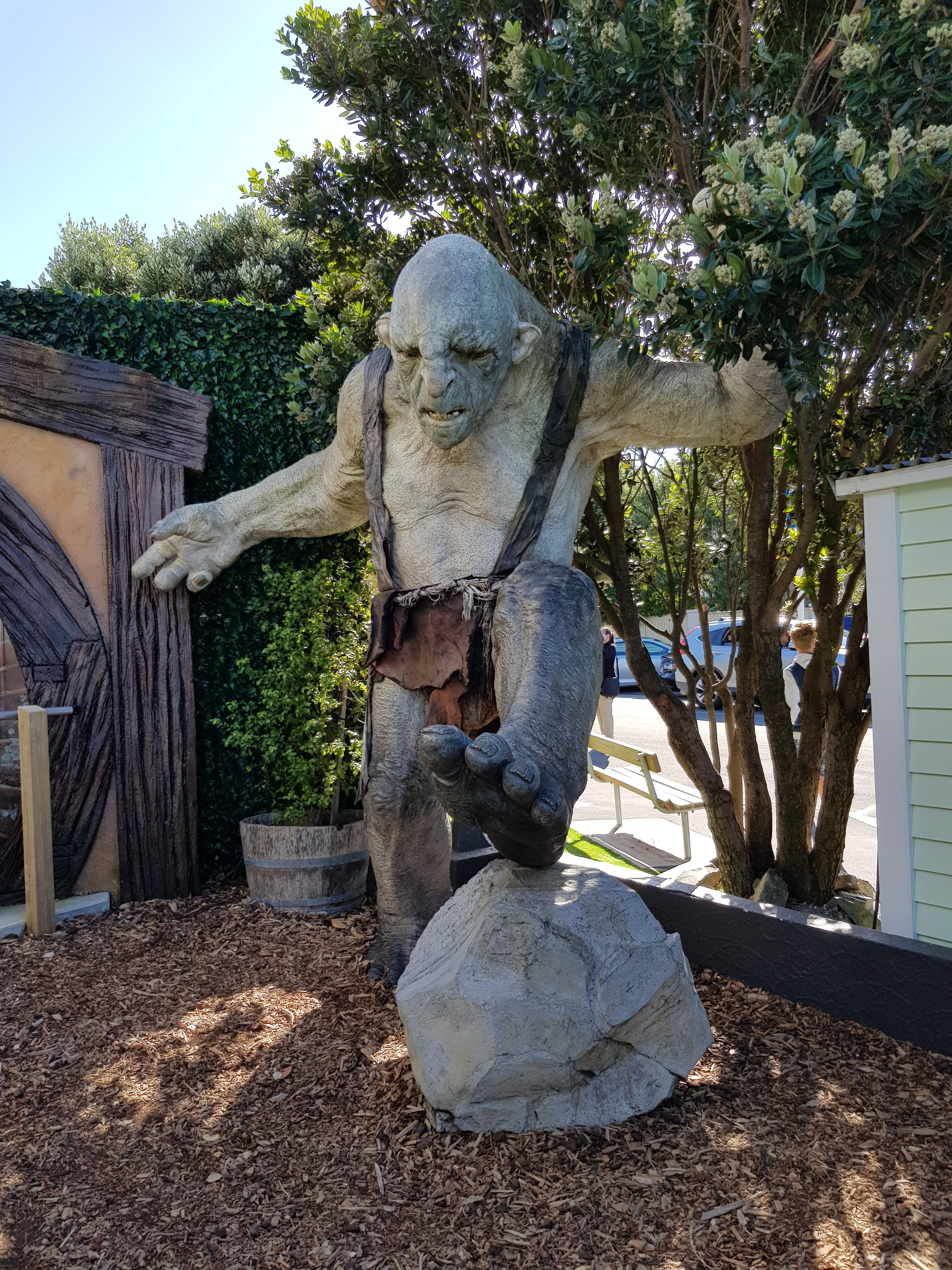 The three Stone trolls Tom, Bert, and William found at the Weta Cave in Wellington, New Zealand.